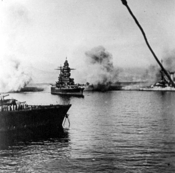 Battleship Dunkerque, under fire during Operation CatapultComment - it might be Strasbourg, with two-level bridge. Pibwl (talk) 23:44, 23 September 2008 (UTC). Renommage : Effectivement, il semble bien s'agir du Strasbourg et non du Dunkerque, je propose aux administrateurs de renommer le fichier en conséquence. --Sylvain Mulard (talk) 16:11, 9 April 2011 (UTC)